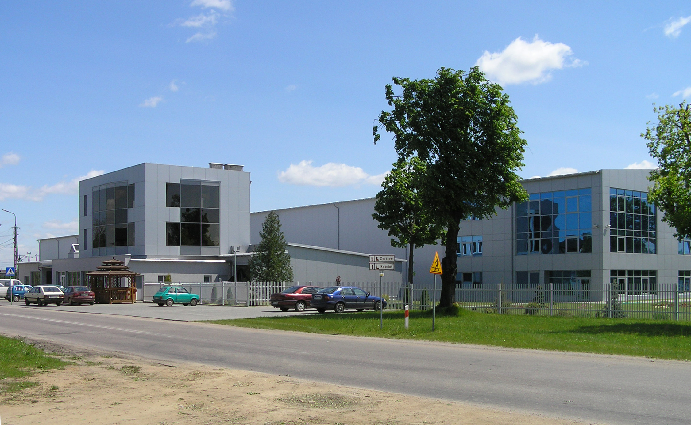 Pronar company, in Narew, Poland.